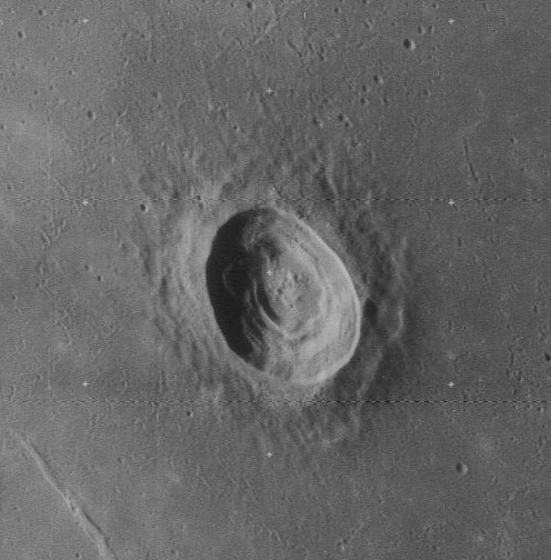 Picard, on the moon.